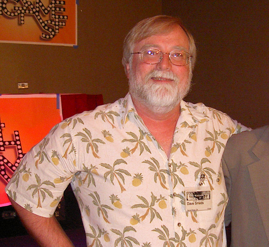 Speculative fiction author Dave Smeds, photographed at Westercon 64 in the Fairmont San Jose Hotel on Saturday, 2 July 2011.